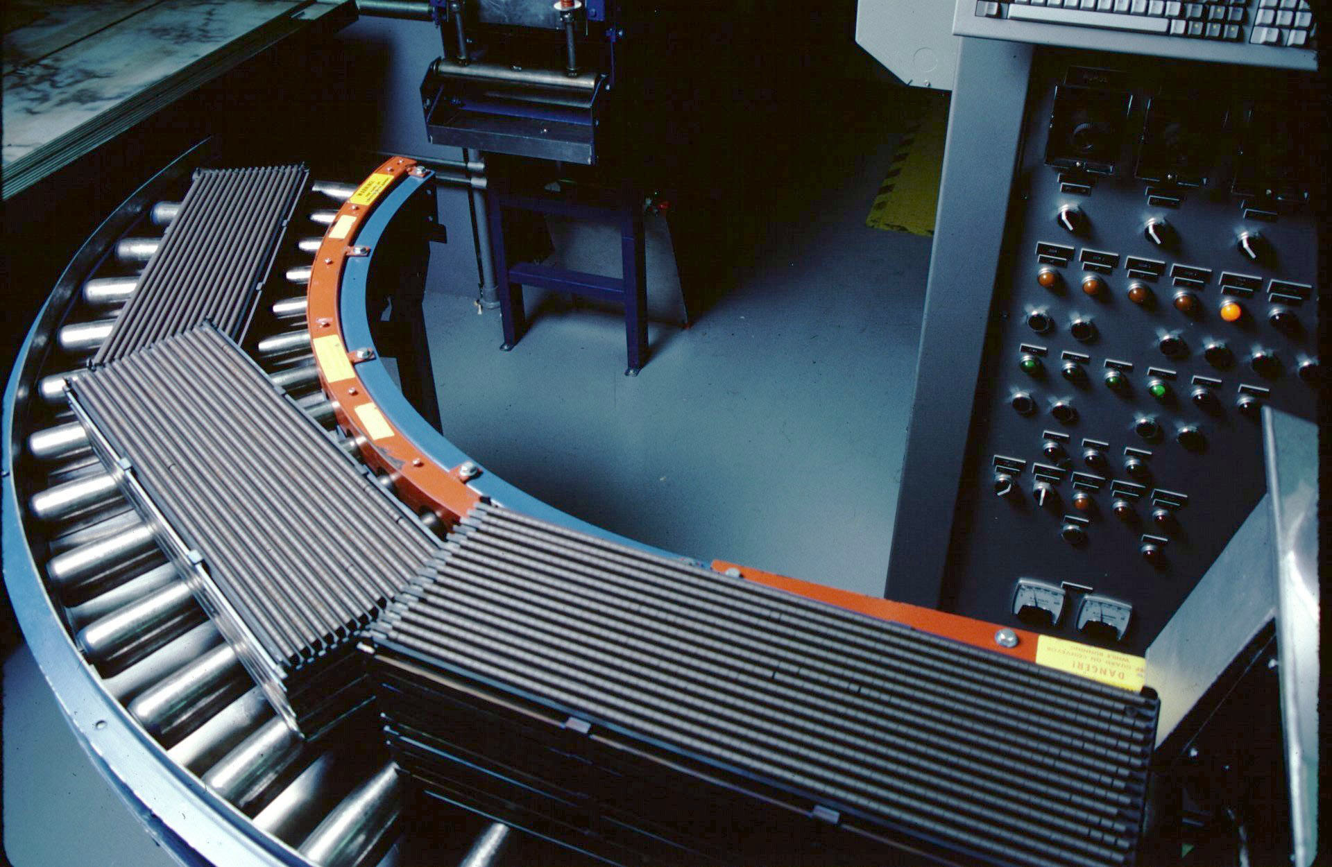 NRC Image of Fuel Pellets ready for Fuel Assembly completion.